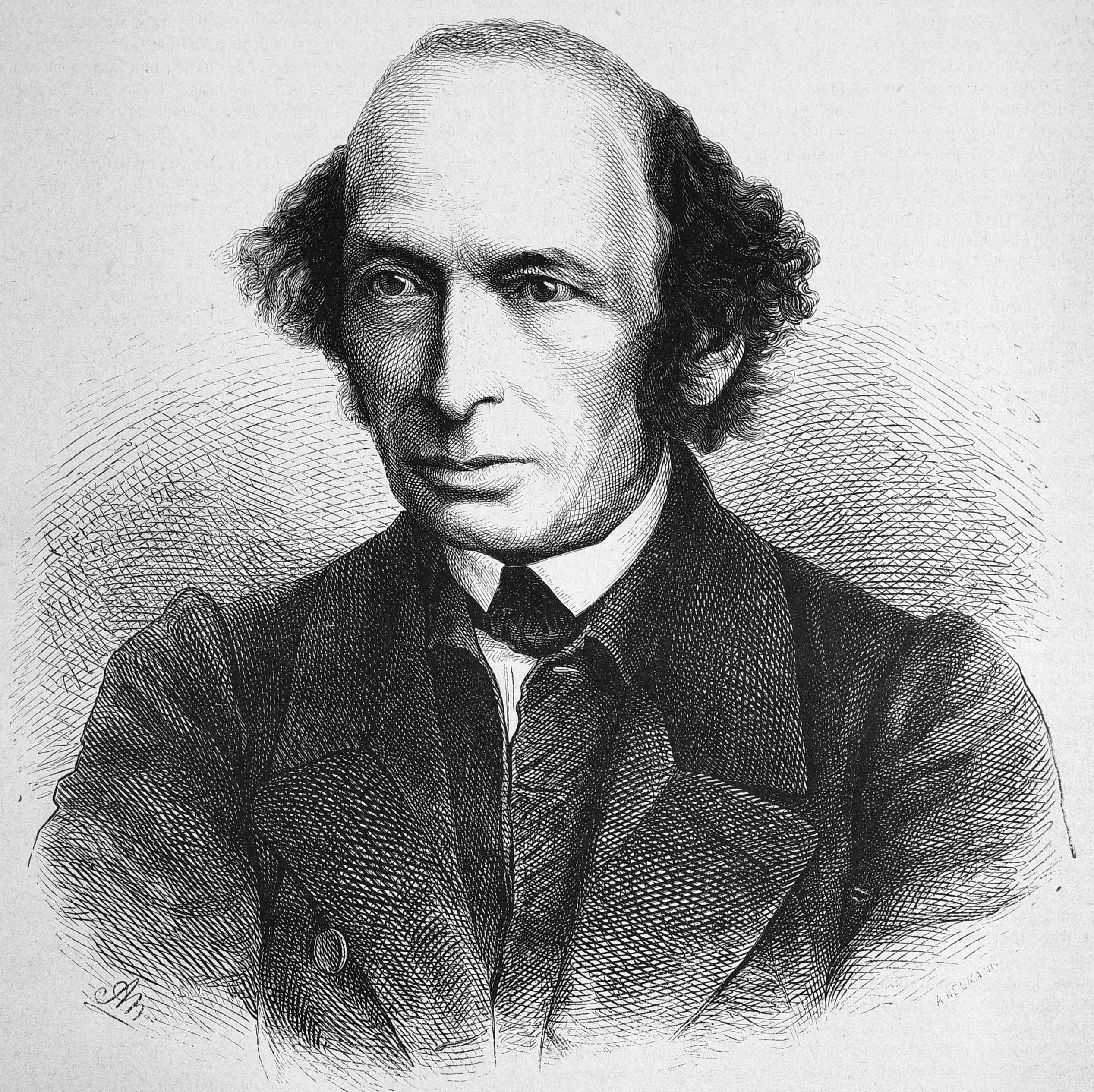 Johann Jacoby